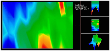 OKM GPR image of nonferrous metal shaped like bullion.